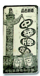 advertisement of Chung Hwa cigarettes 1951